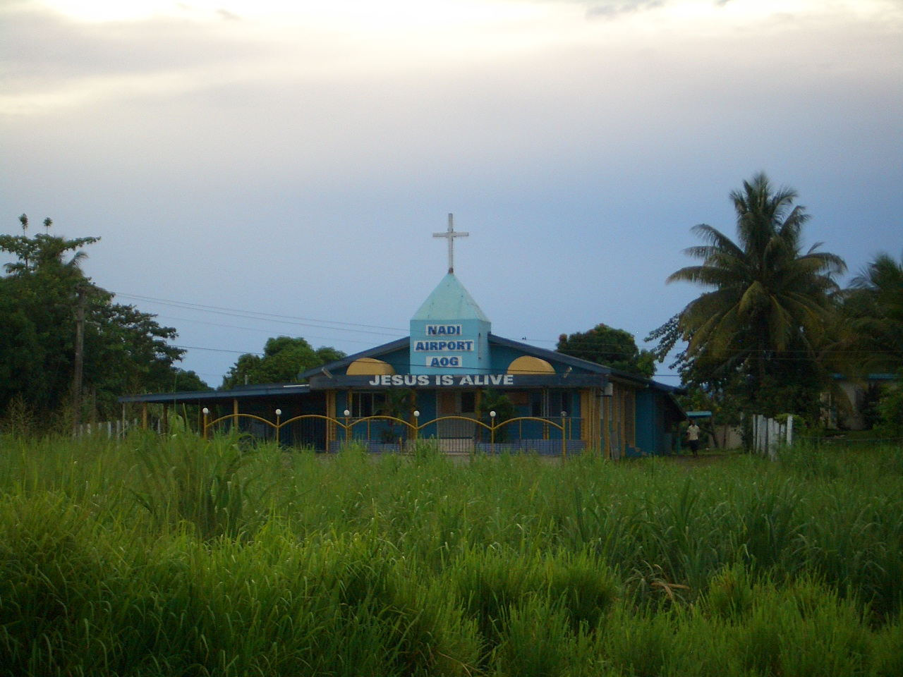 A church near Nadi Airport, Fiji